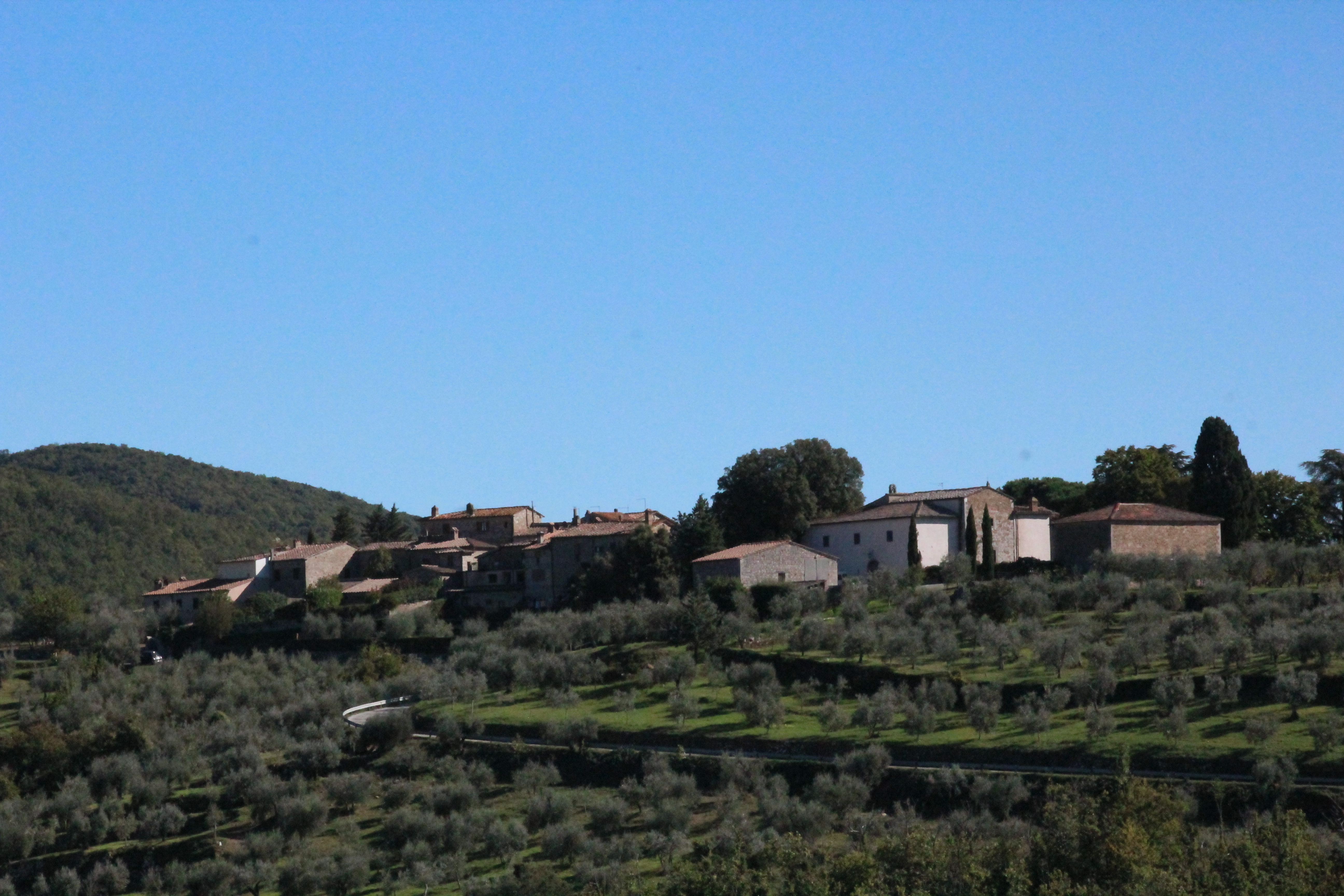 San Martino al Vento, hamlet of Gaiole in Chianti, Province of Tuscany, Italy